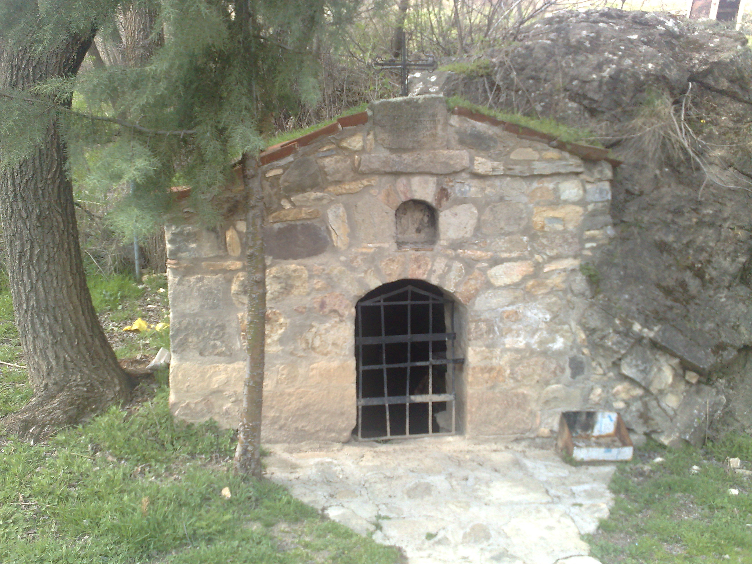 Тhe cell (cave) where Macedonian orthodox saint used to live in Staro Nagoricane